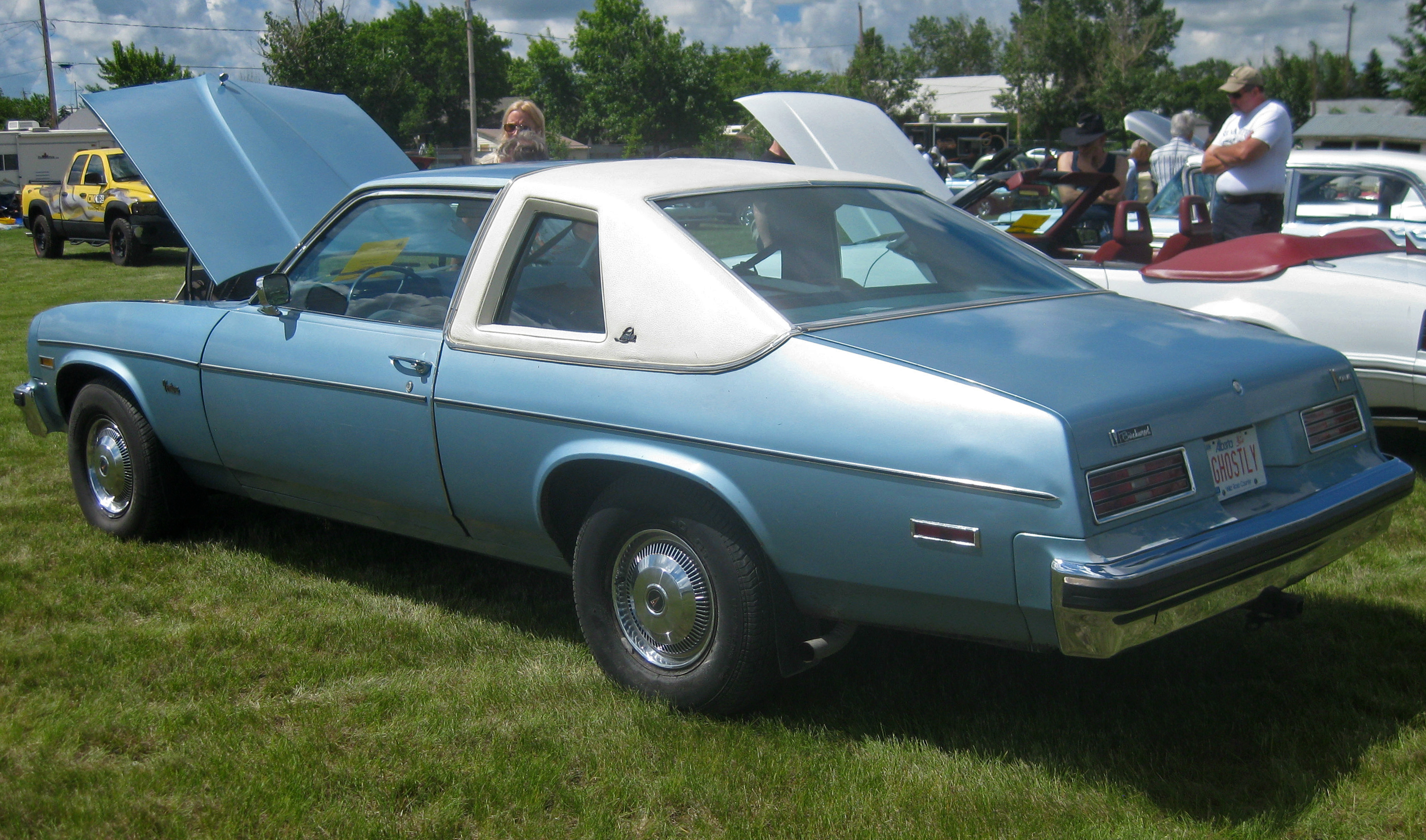 Low mileage 1976 Pontiac Ventura with 260cid V8 and the optional Landau Roof.